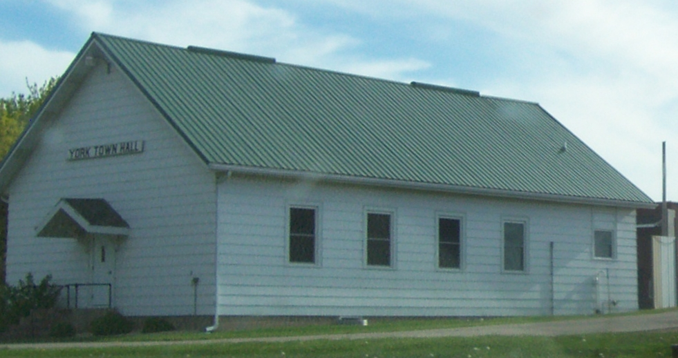 Looking south at the town hall for York, Dane County, Wisconsin, USA.